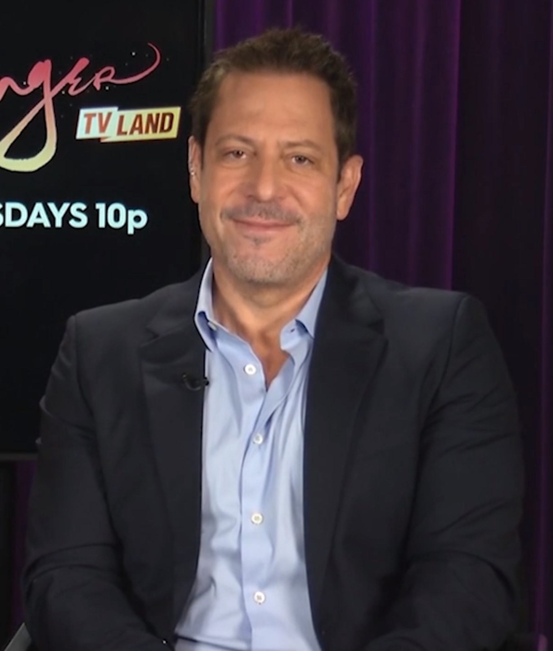 In the extended interview, SIDEWALKS host Lori Rosales talks to "Younger" star Miriam Shor and creator Darren Star about Star's inspiration of his TV shows; why Star thought of Shor for the role of Diana Trout; and did Star, at the beginning, know who Carrie would pick in the "Sex in the City" finale.